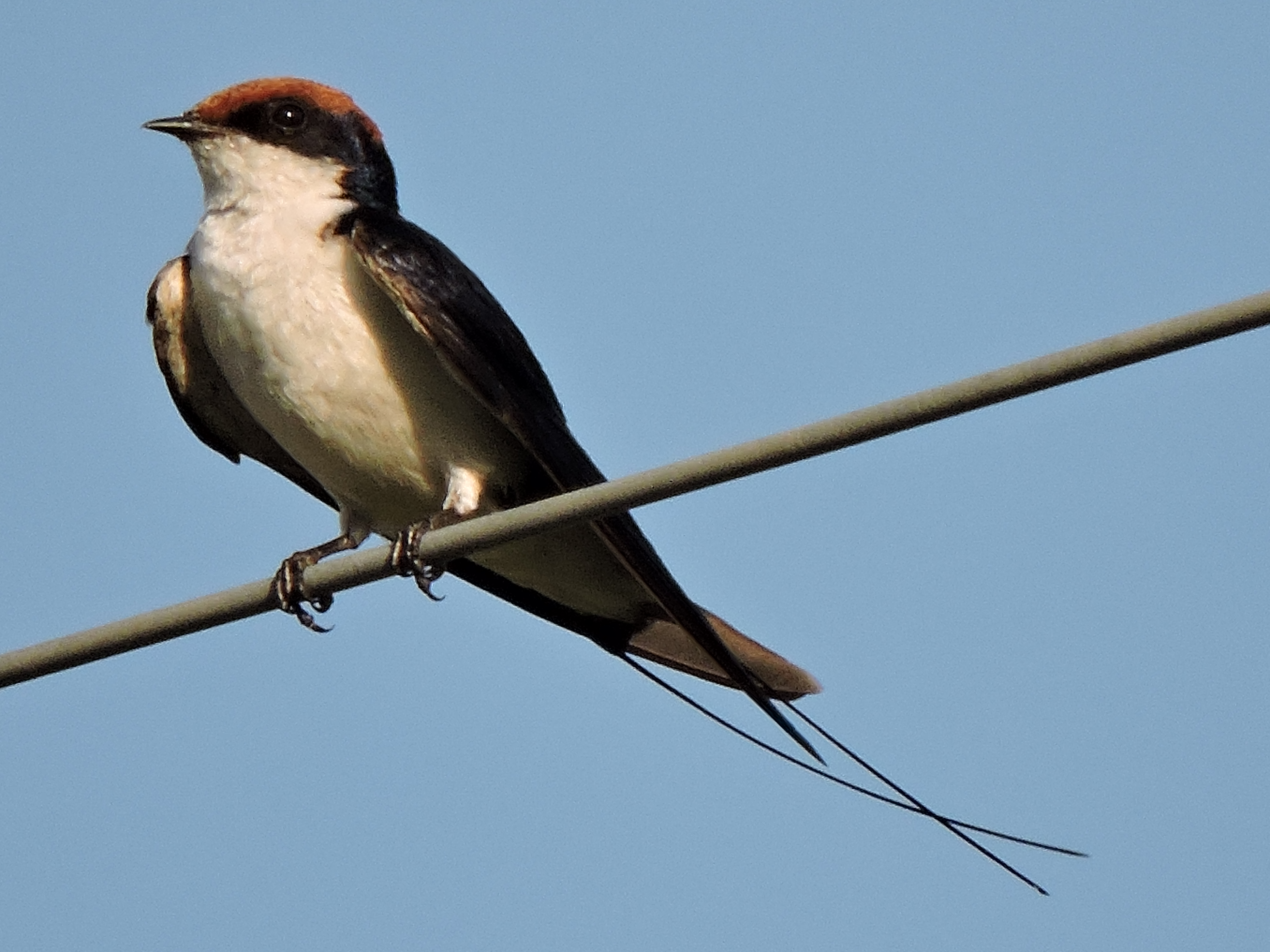 Wiretailed swallow subspecies filifera , Mini Lake ,Chandigarh, India